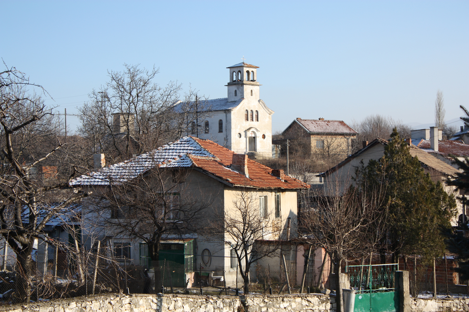 The Church district of Dabravite village, Bulgaria